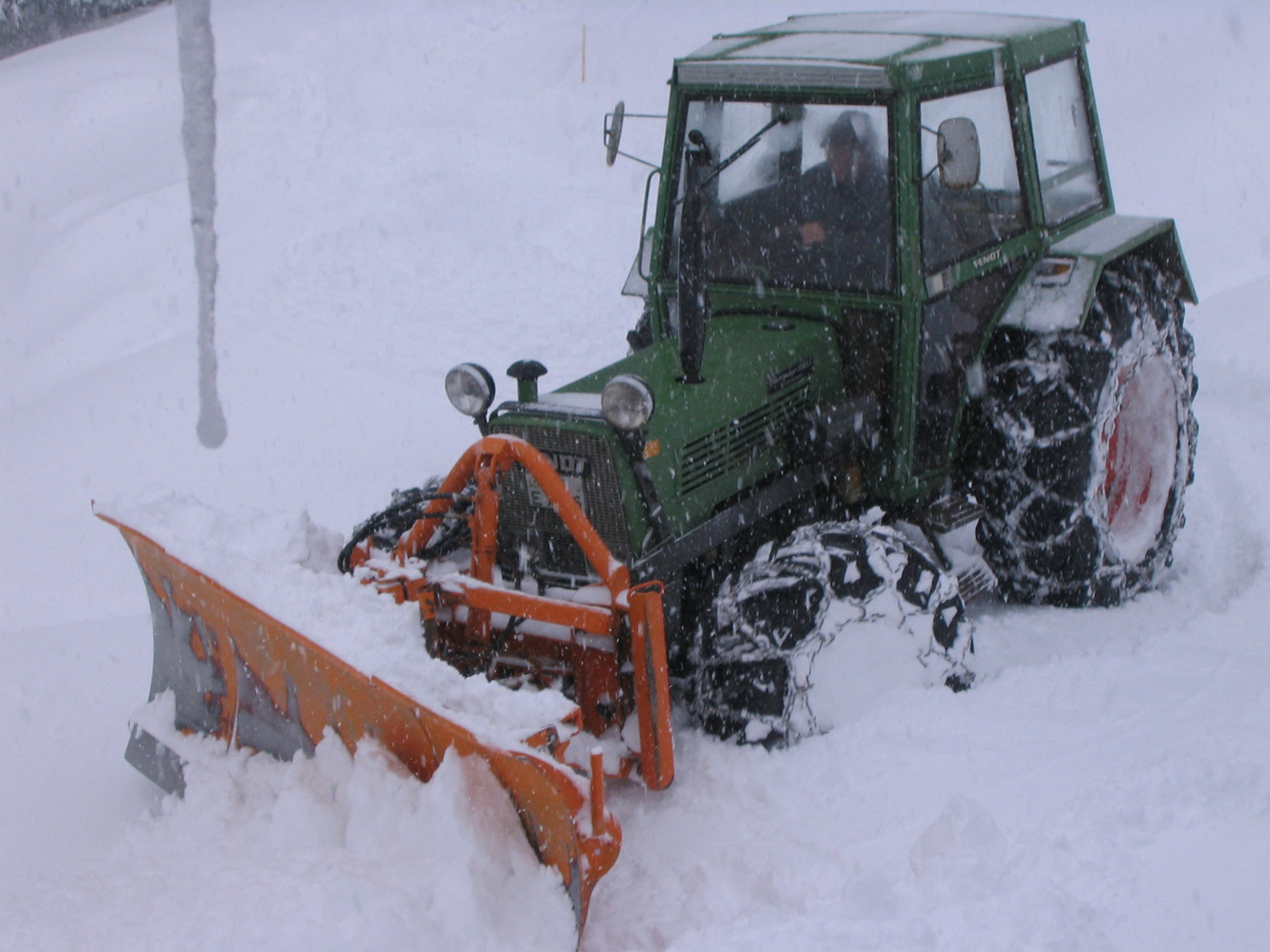 Fendt Farmer 108 LS in snow